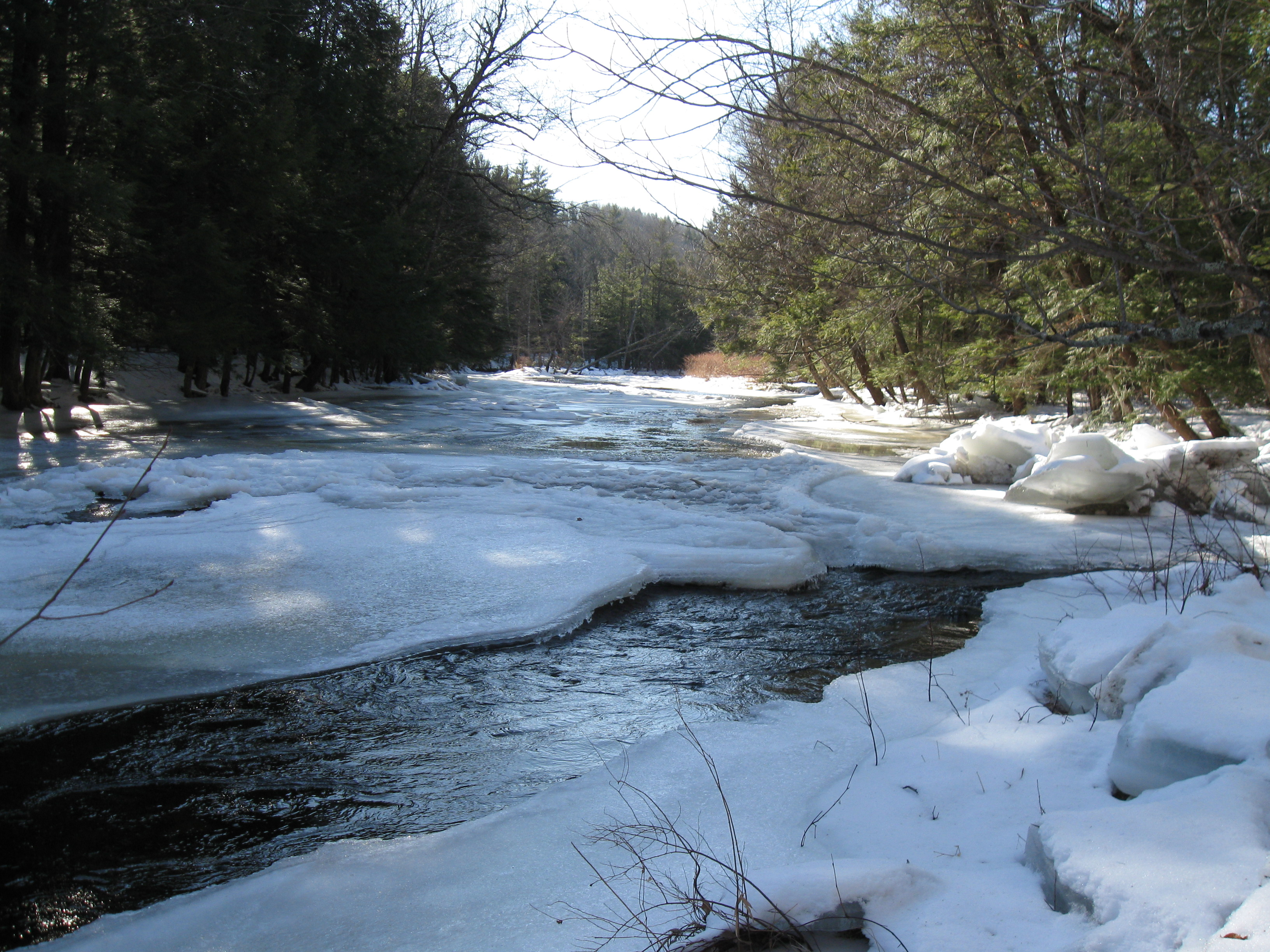 South Branch Piscataquog River in New Boston, New Hampshire, January 16, 2010.